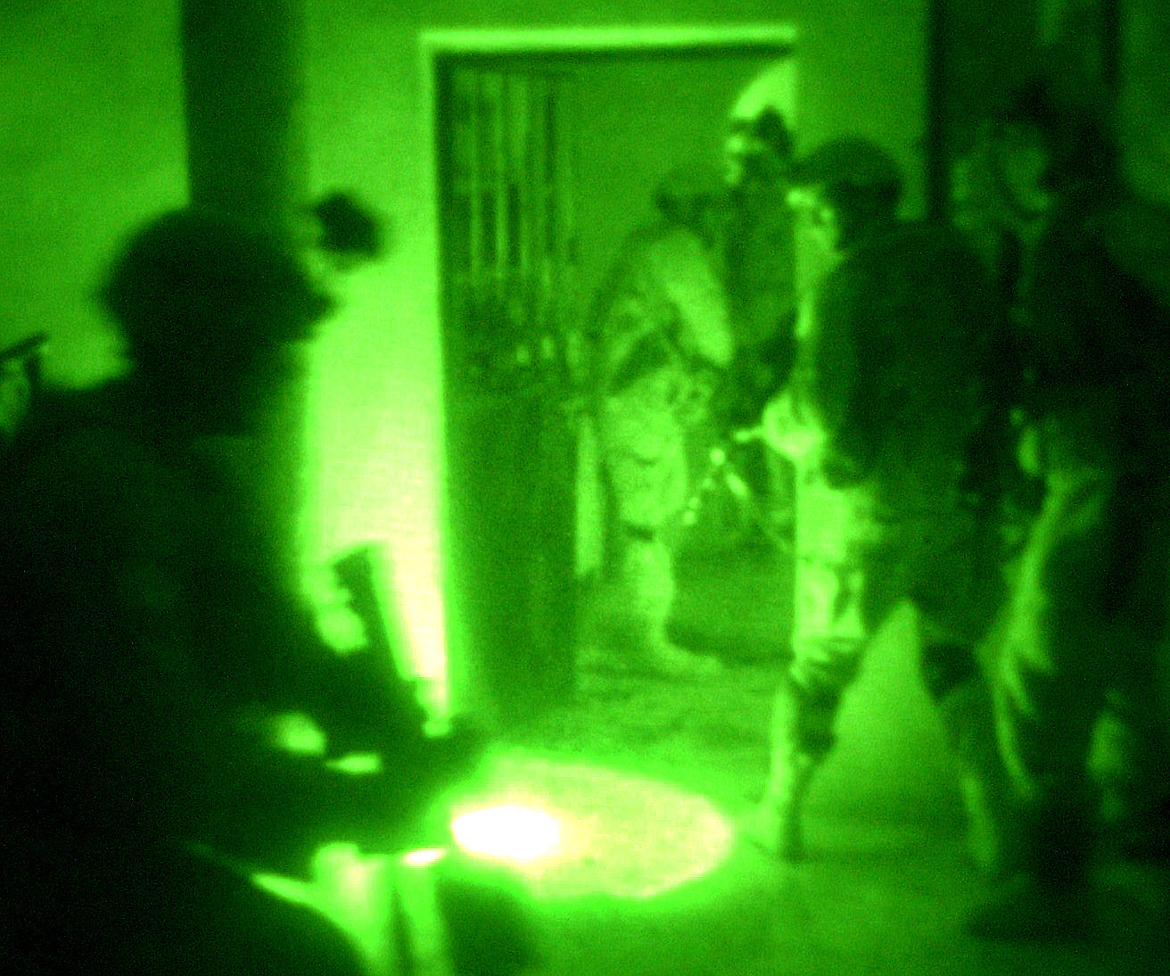 Seen through a night-vision device, paratroopers conduct a raid on a suspected terrorist's home in Fallujah, Iraq. The Soldiers are assigned to the 82nd Airborne Division's Company B, 1st Battalion, 505th Parachute Infantry Regiment.